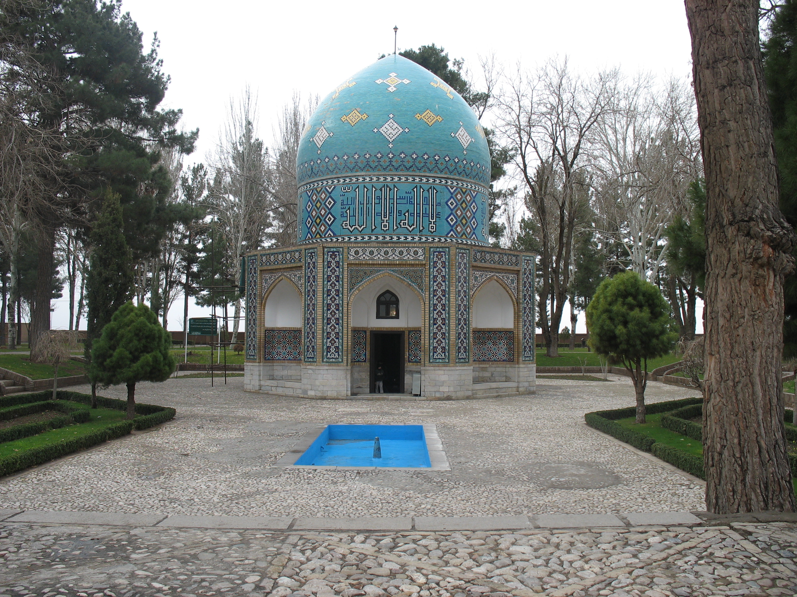 Attar mausoleum in Neyshabur